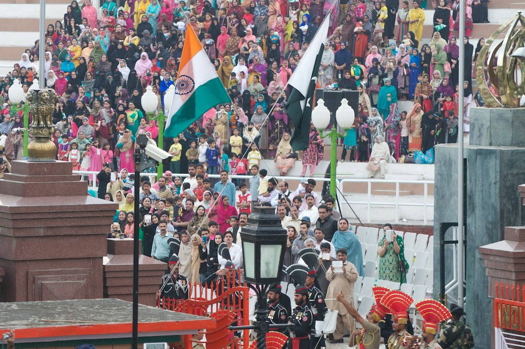 Pakistan guard at Wagah Border Ceremony